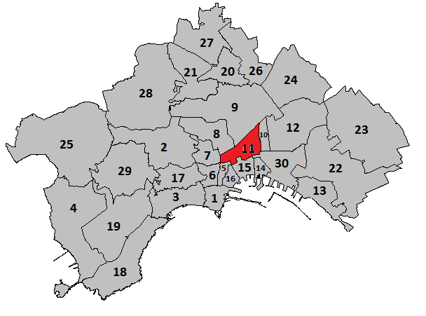 San Lorenzo in Naples